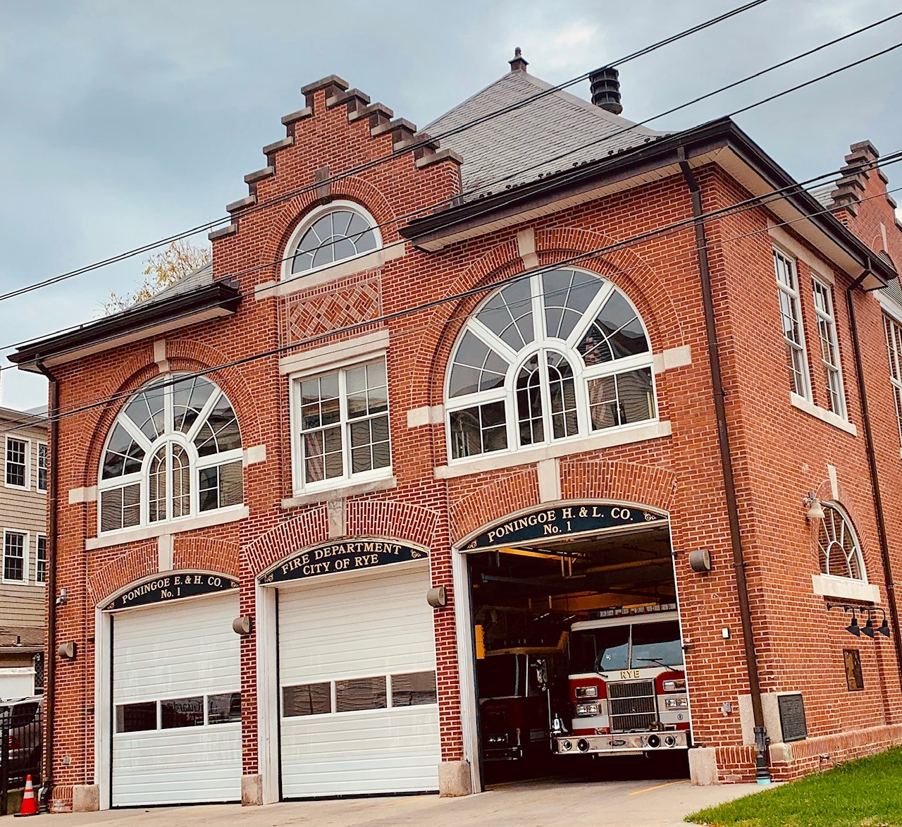 Rye Fire House (1907)